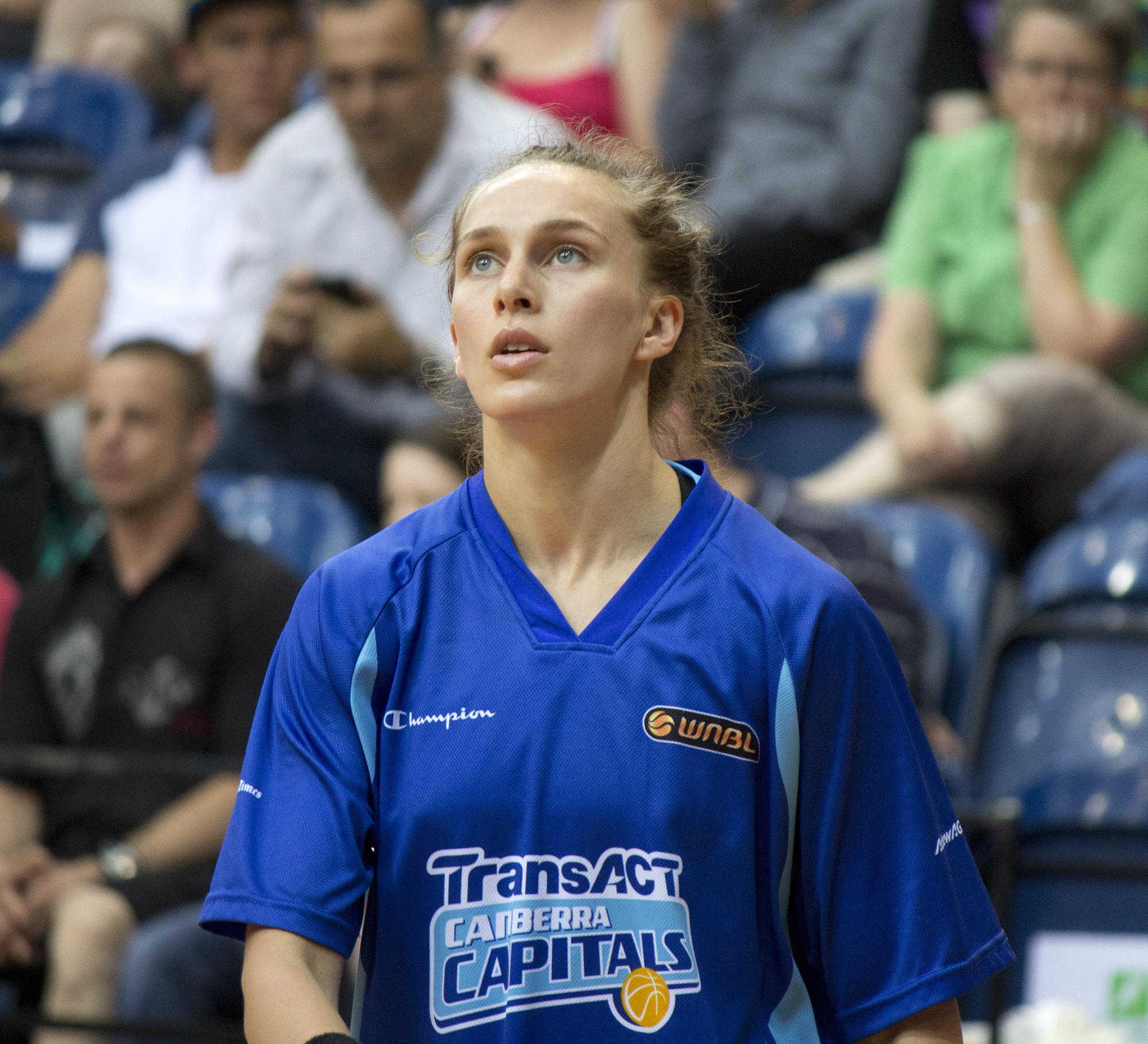 Mikaela Dombkins at the Canberra Capitals vs Logan Thunder held at AIS Arena at the Australian Institute of Sport